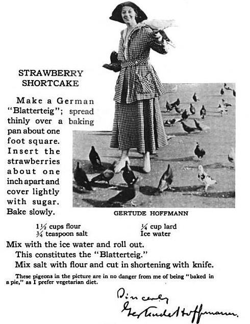 Gertrude Hoffman 1916